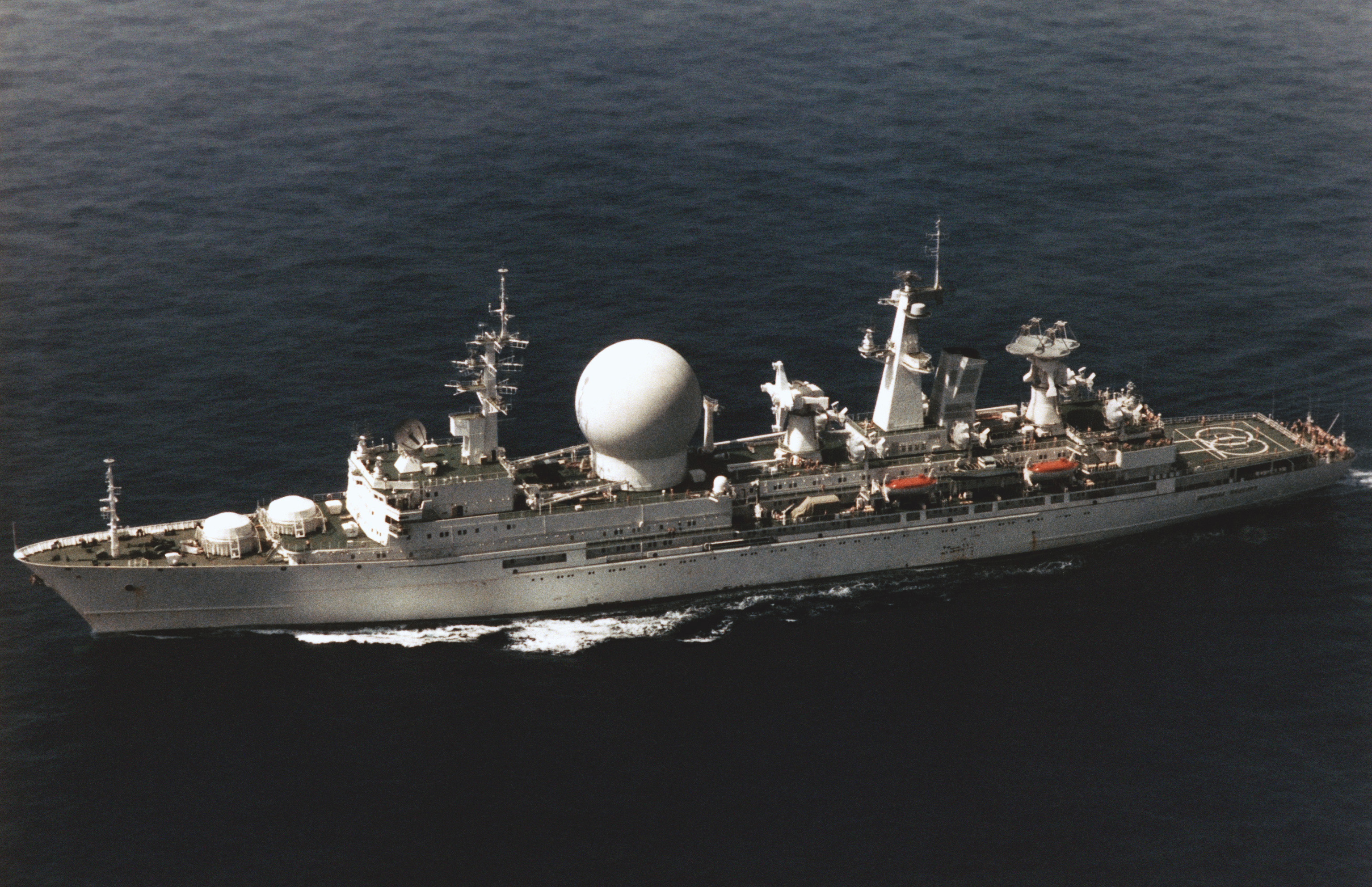 Aerial port side view of the Soviet naval missile range ship MARSHAL NEDELIN underway.